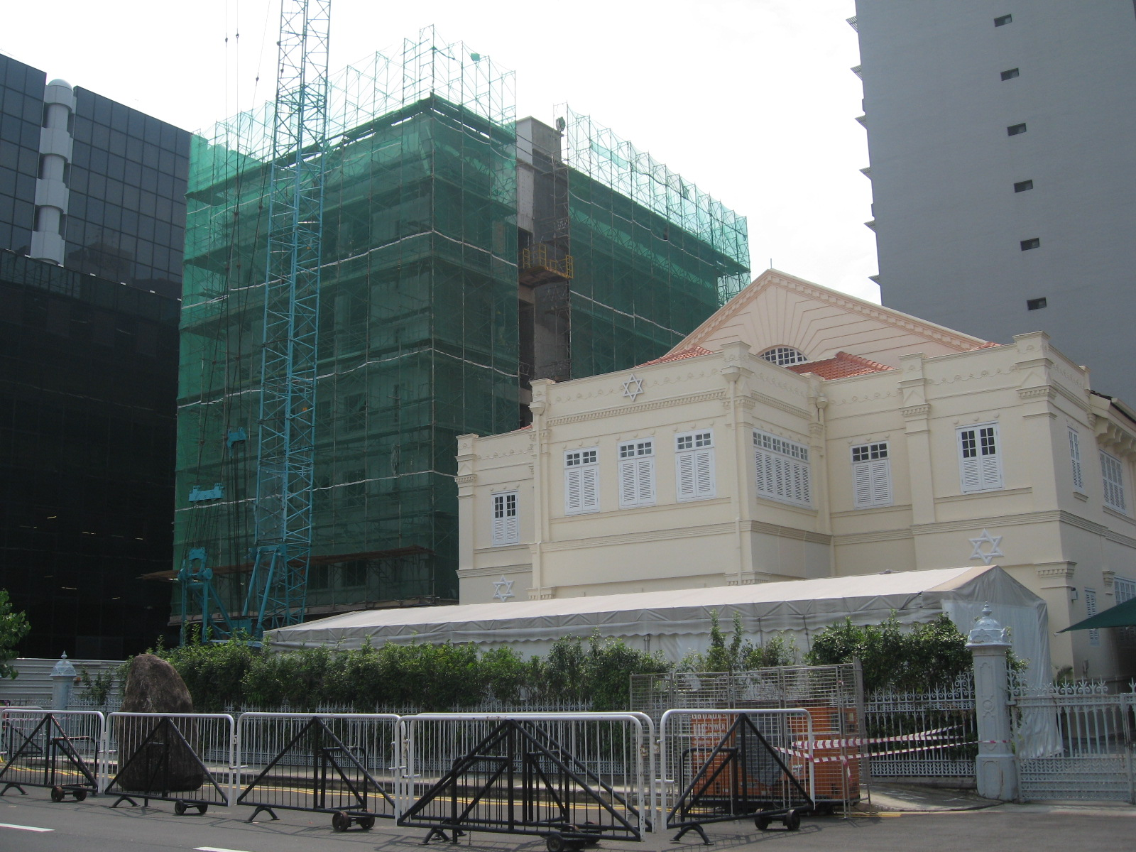 Maghain Aboth Synagogue.